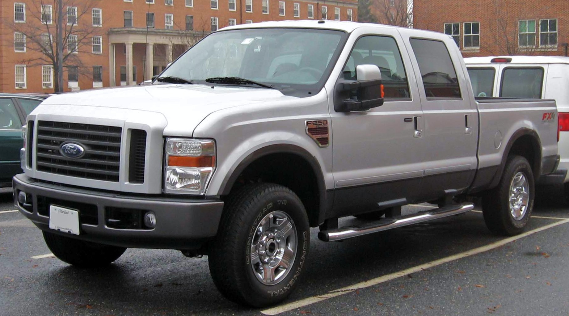 2008 Ford F-250 photographed in College Park, Maryland, USA.